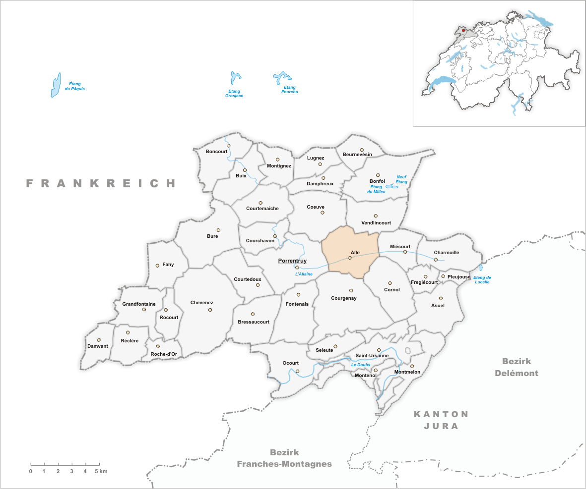 Municipality Alle Artist: Tschubby